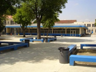 Students' quad - This is where students congregate during lunch.